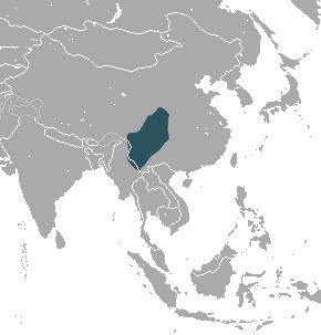 Gracile Shrew Mole (Uropsilus gracilis) range